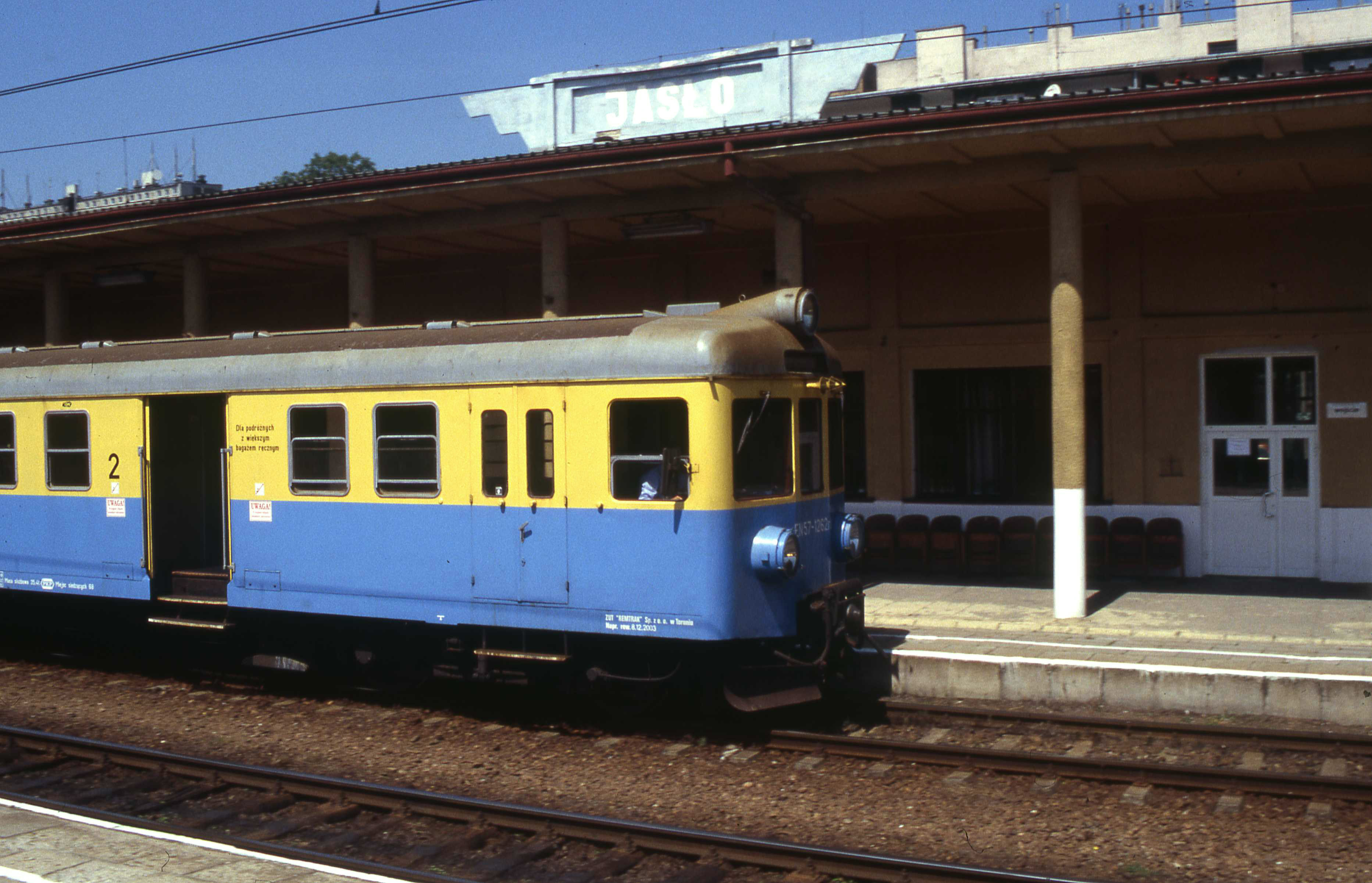 Electric multiple unit EN 57 1262 at Jaslo railway station.